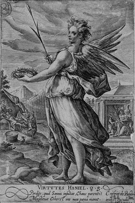 The Virtues – Archangel Haniel – The Planet Venus – The Number Five